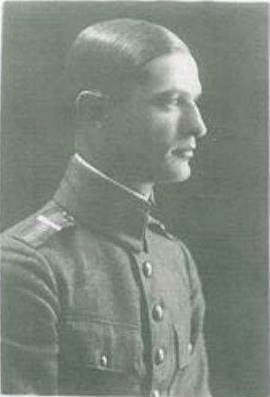 Major Florian Medrea (Romania) in 1919